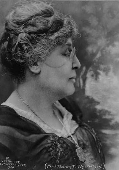 Margaret Murray Washington in 1917; Headshot